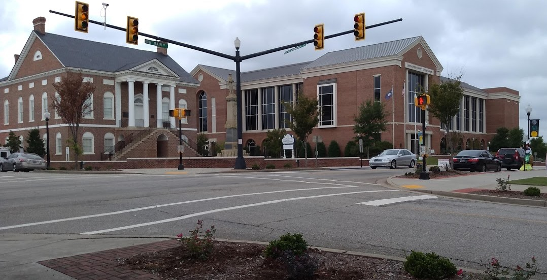 One of Lancaster's main intersections